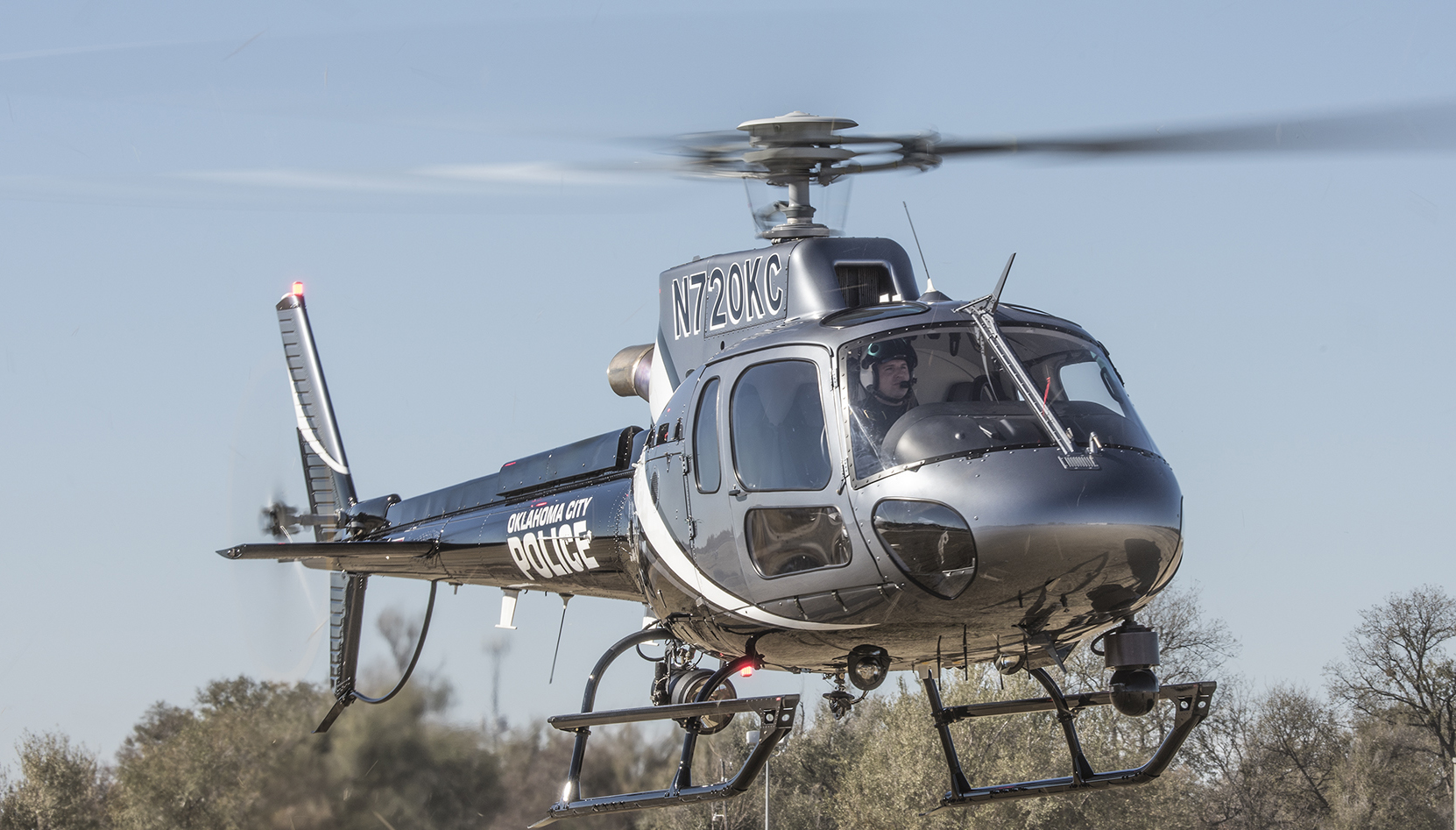 OCPD Air-One Eurocopter AS350